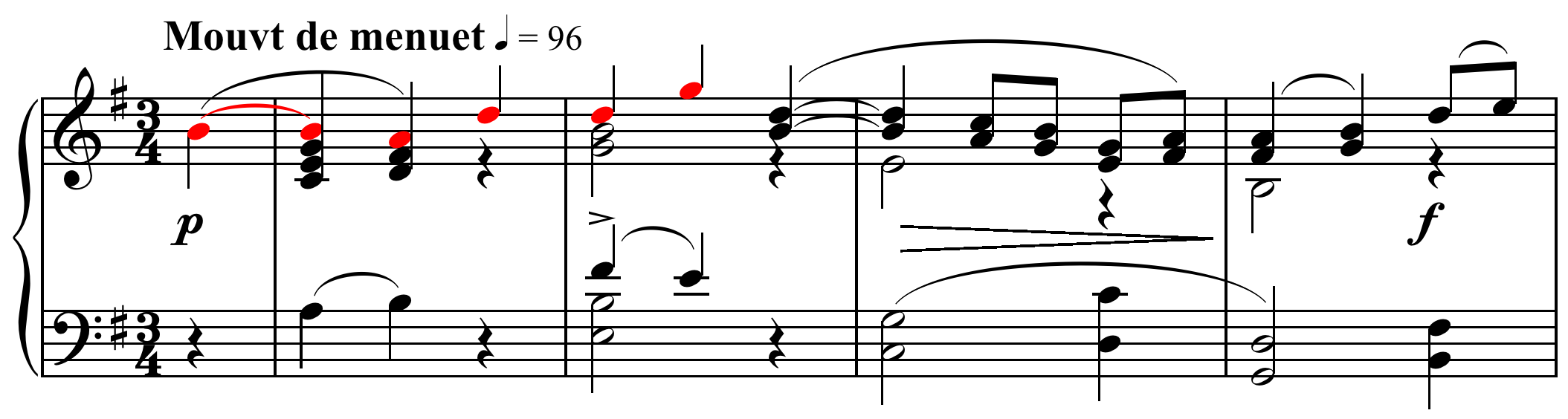 The first 4 bars of Menuet sur le nom d'Haydn (1909), by Maurice Ravel (1875-1937). B♮ A D D G = H A Y D N.